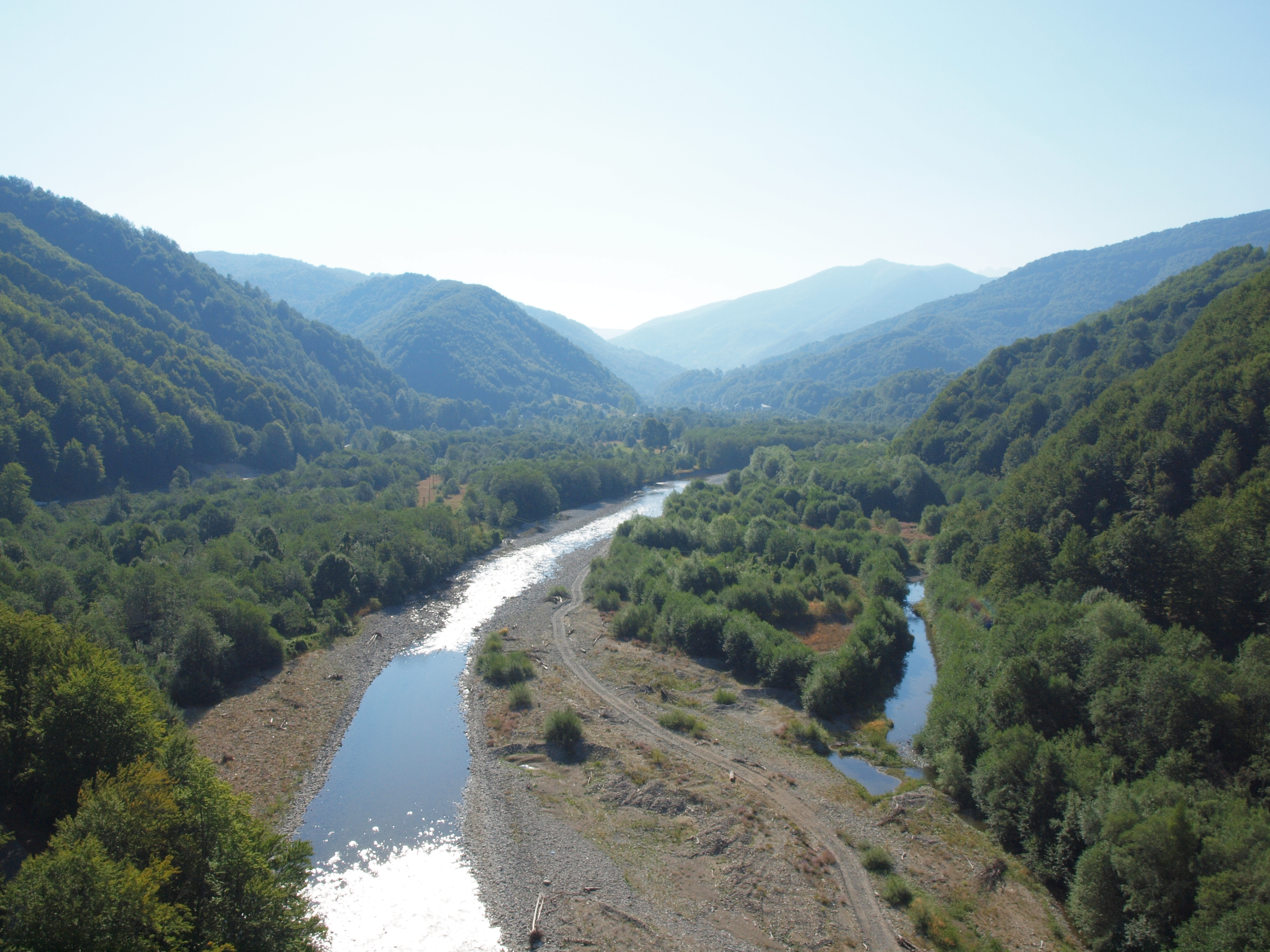 Belgrade-Bar railroad Tara river crossing